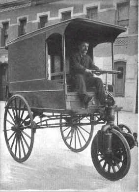 The International Motor Wheel was a device that was attached to a horse carriage after removing the original front axle. It consisted of engine, drive gearing, wheel and steering. International Motor Wheel Co., NYC, 1899.